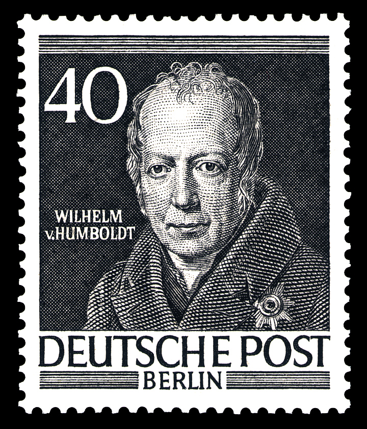 stamp series, men of the history of Berlin I, Wilhelm von Humboldt, (1767-1835)